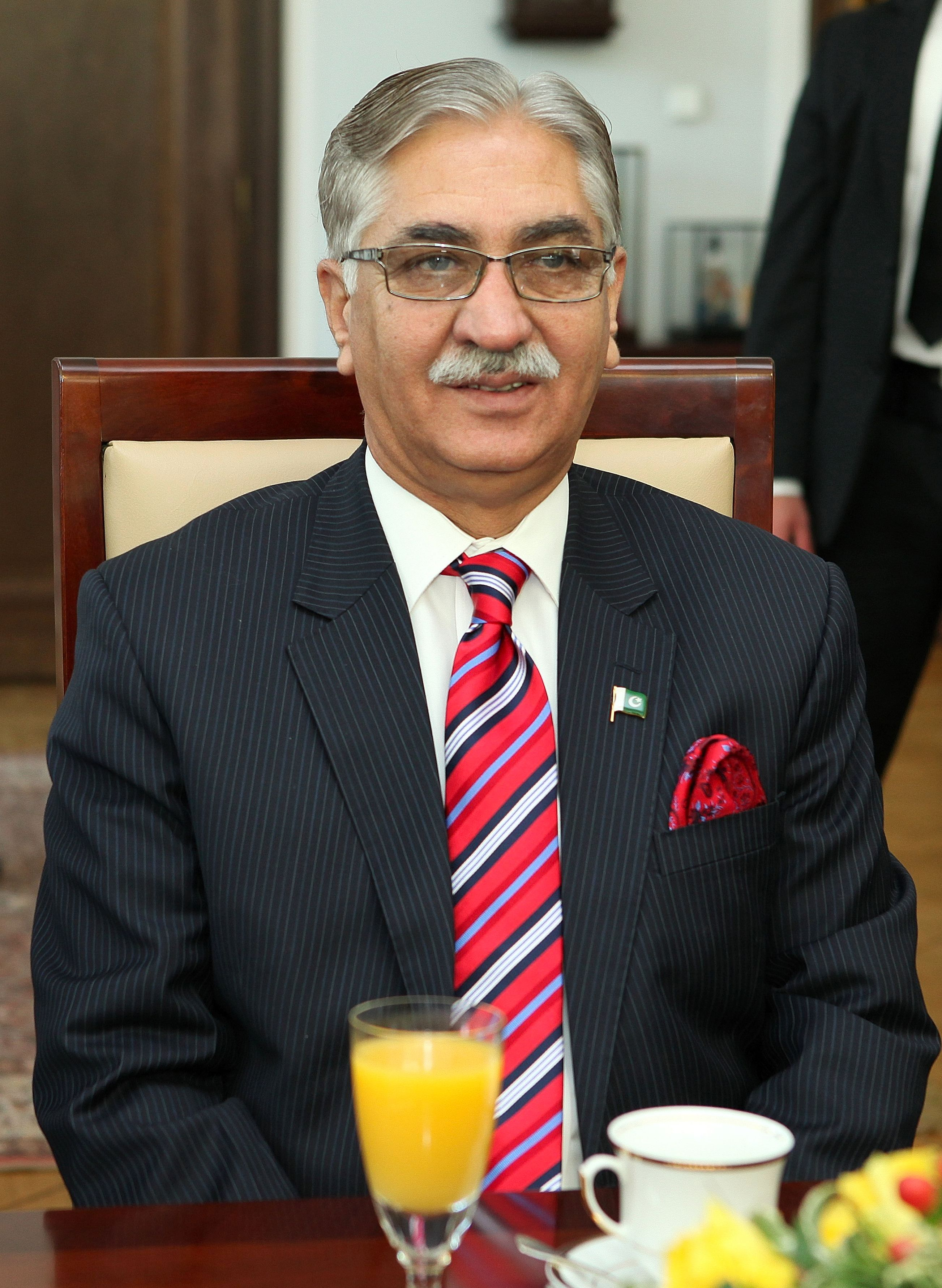 Chairman of the Senate of Pakistan Syed Nayyer Hussain Bokhari in the Polish Senate